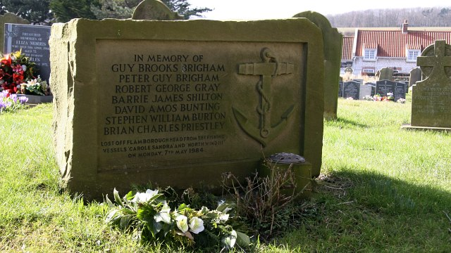 Memorial to lost fishermen in St. Oswald's churchyard, Flamborough, East Riding of Yorkshire, England. This memorial stone is close to the church porch. It contains the following inscription: IN MEMORY OF GUY BROOKS BRIGHAM PETER GUY BRIGHAM ROBERT GEORGE GRAY BARRIE JAMES SHILTON DAVID AMOS BUNTING STEPHEN WILLIAM BURTON BRIAN CHARLES PRIESTLEY LOST OFF FLAMBOROUGH HEAD FROM THE FISHING VESSELS 'CAROLE SANDRA' AND 'NORTH WIND III' ON MONDAY, 7TH MAY 1984. See also this link , which describes the circumstances of the loss. - - - For a photograph of a Flamborough memorial to a loss in 1909, click here: .